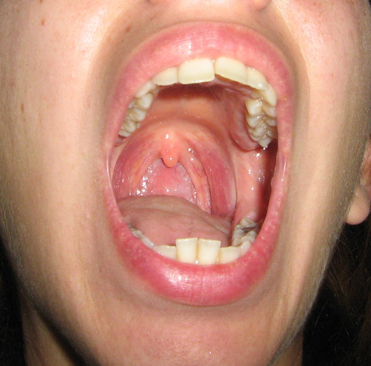 girl's tonsils